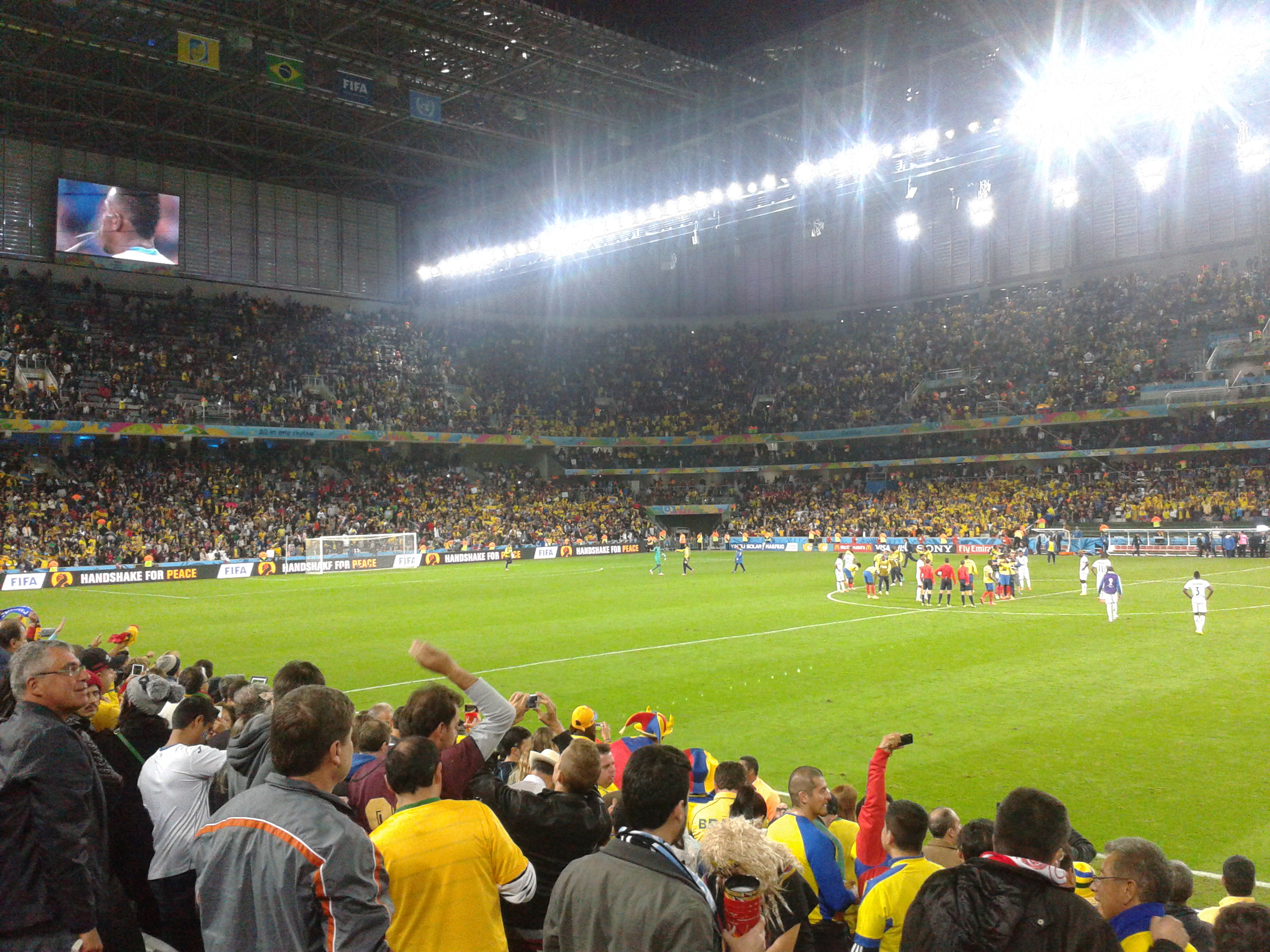 Honduras and Ecuador match at the FIFA World Cup (2014-06-20), Estádio Joaquim Américo Guimarães, Curitiba, Paraná, Brazil.